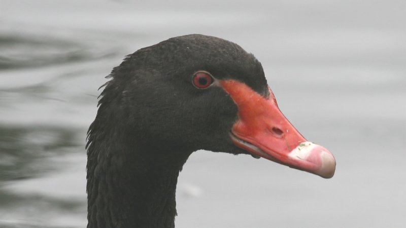 Black Swan (Cygnus atratus)